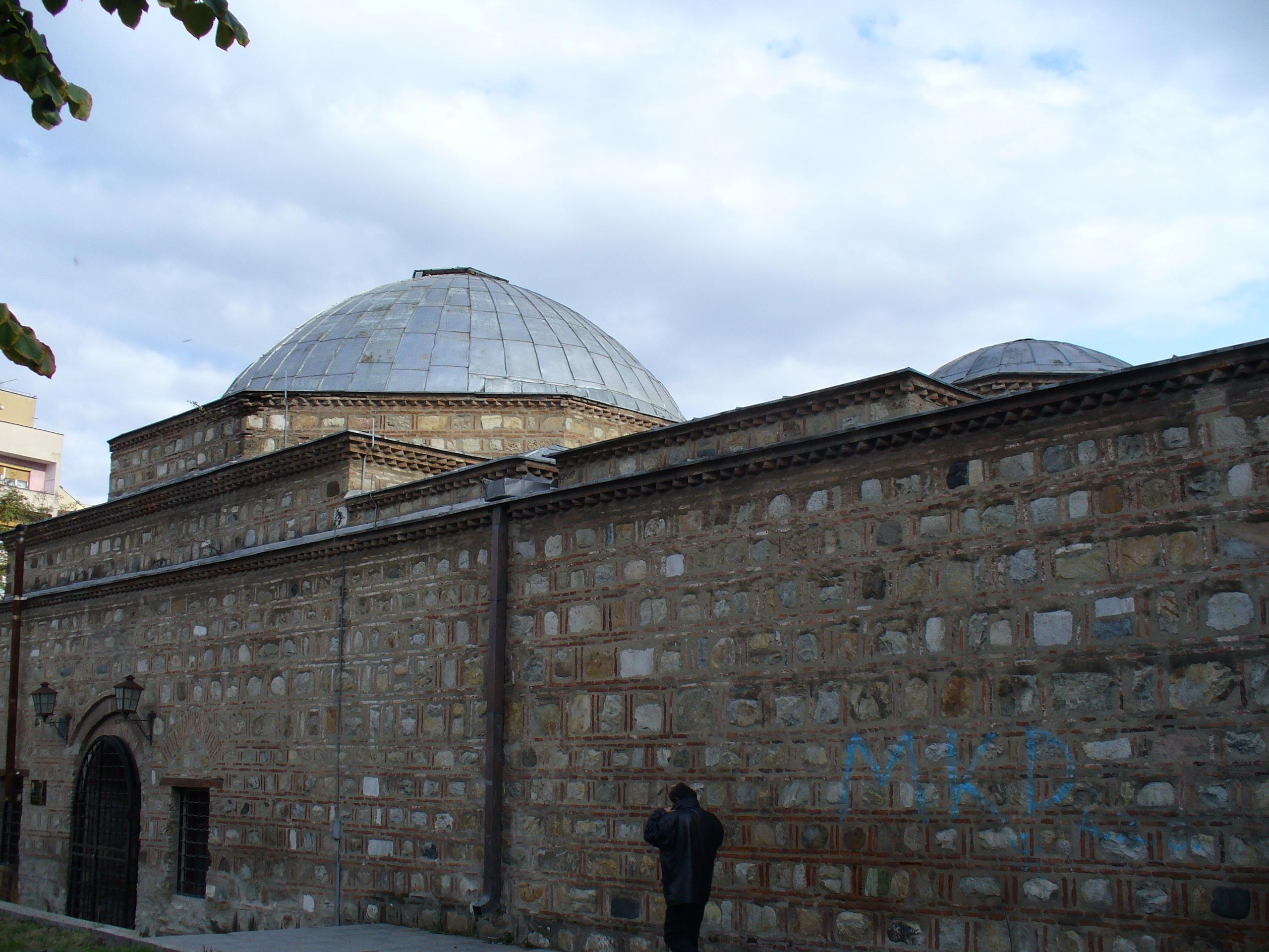 Bitola, old hamam, Macedonia